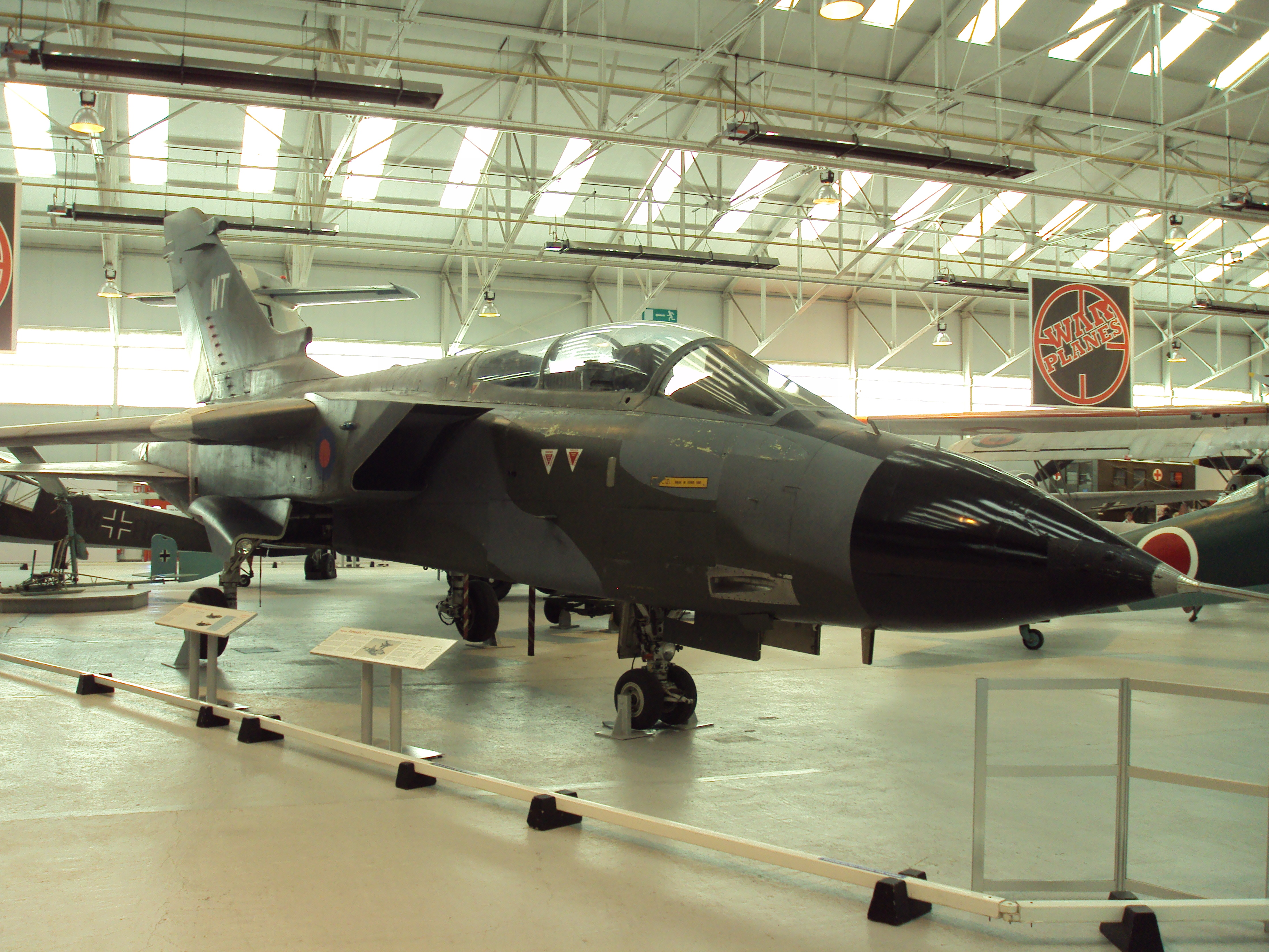 Photo of a Panavia Tornado aircraft of the United Kingdom, taken at the RAF Museum Cosford, Shropshire, England.